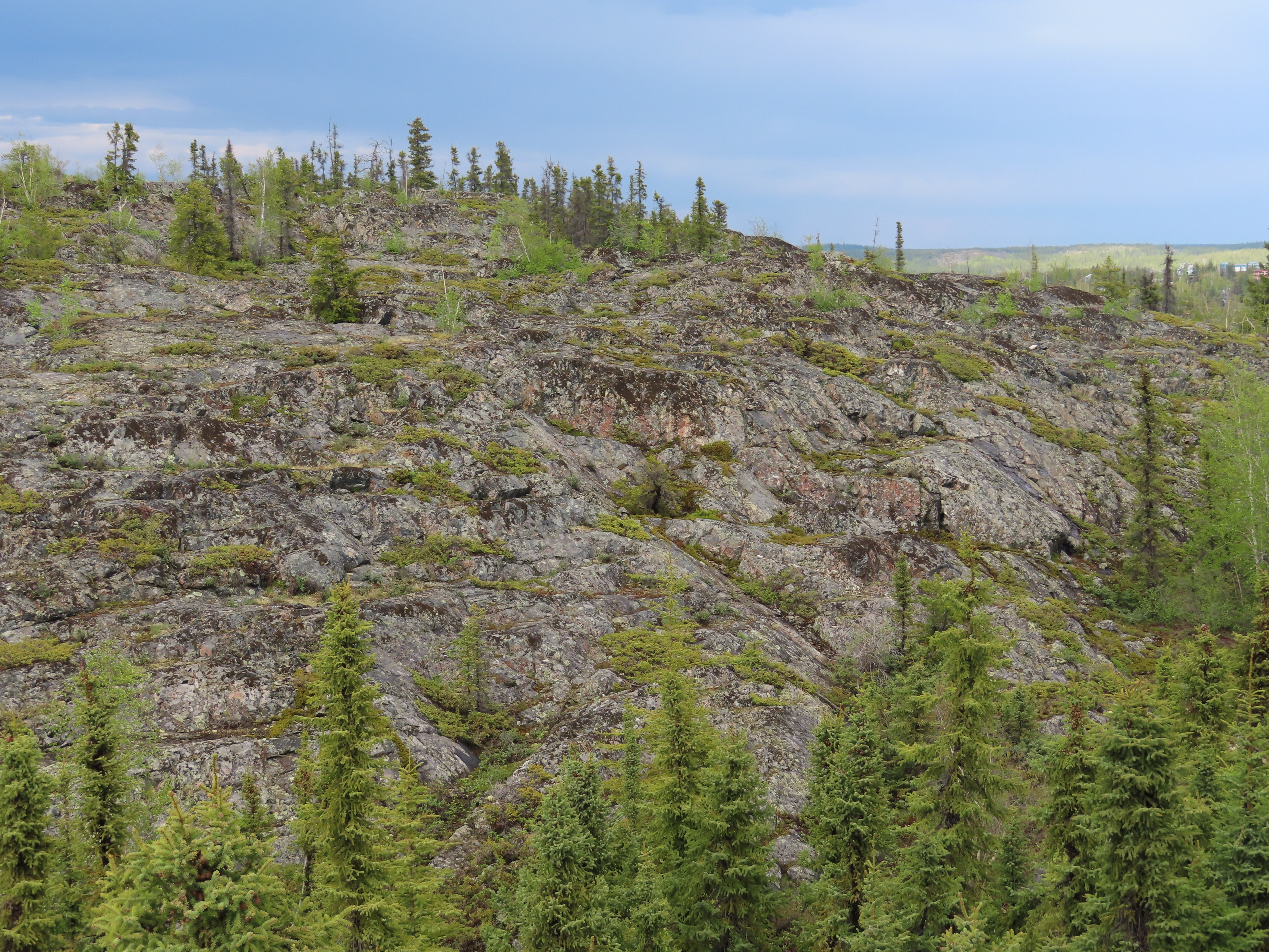 Typical Canadian Shield landscape just outside Niven Lake subdivision, Yellowknife, Northwest Territories, Canada.